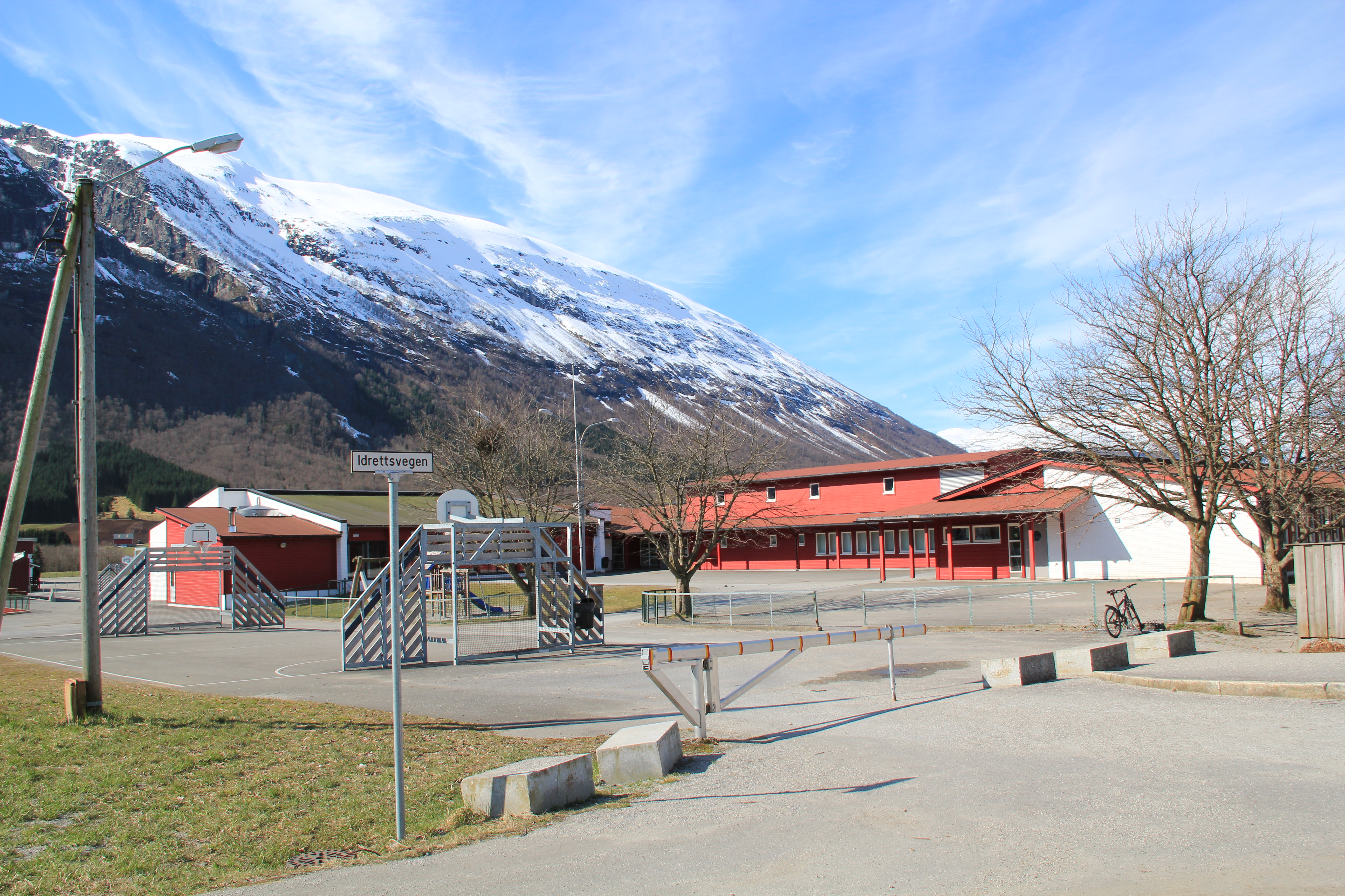 Breim skole at Byrkjelo in Gloppen